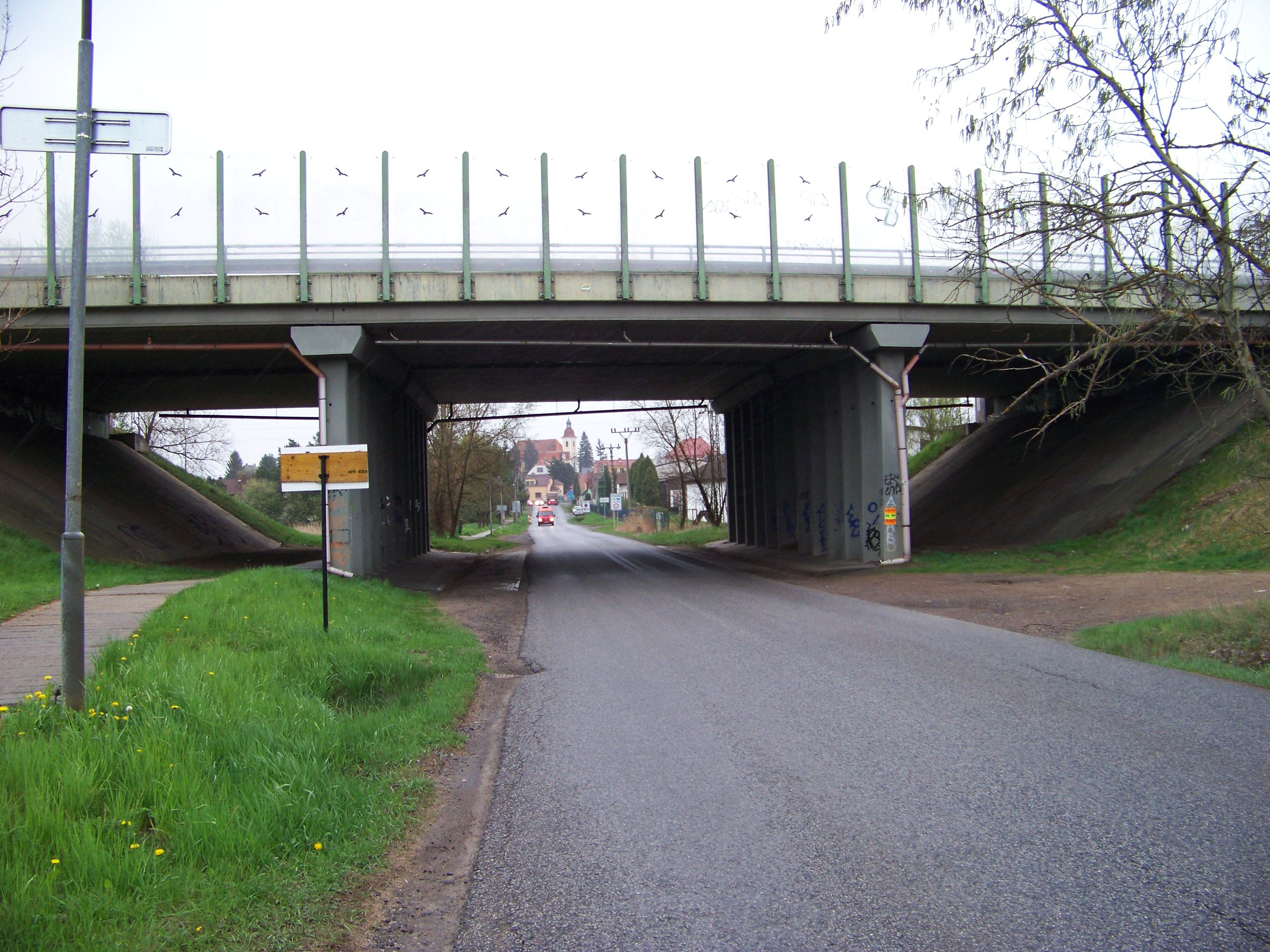 Rudná-Hořelice, Prague-West District, Central Bohemian Region, Czech Republic. Lidická street, D5 highway bridge.